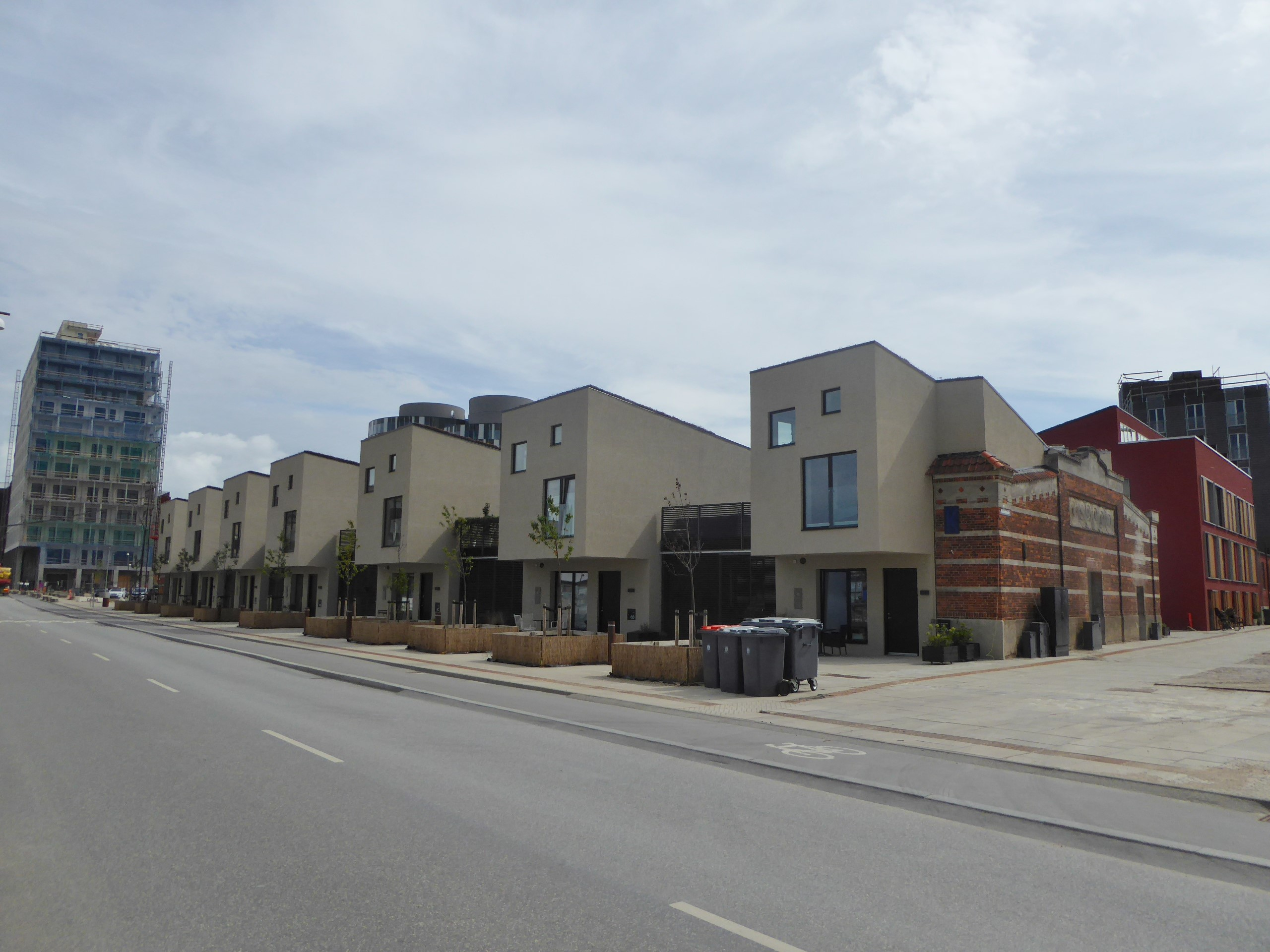 Some of the buildings named Frikvarteret at Helsinkigade in Nordhavn in Copenhagen.